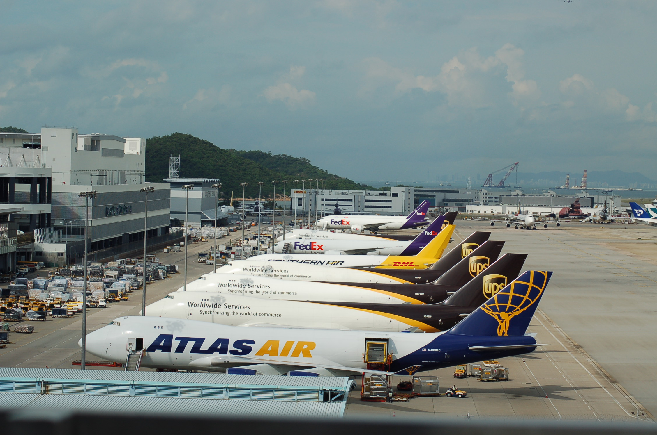 A full freight ramp at HKG,03/09/12.